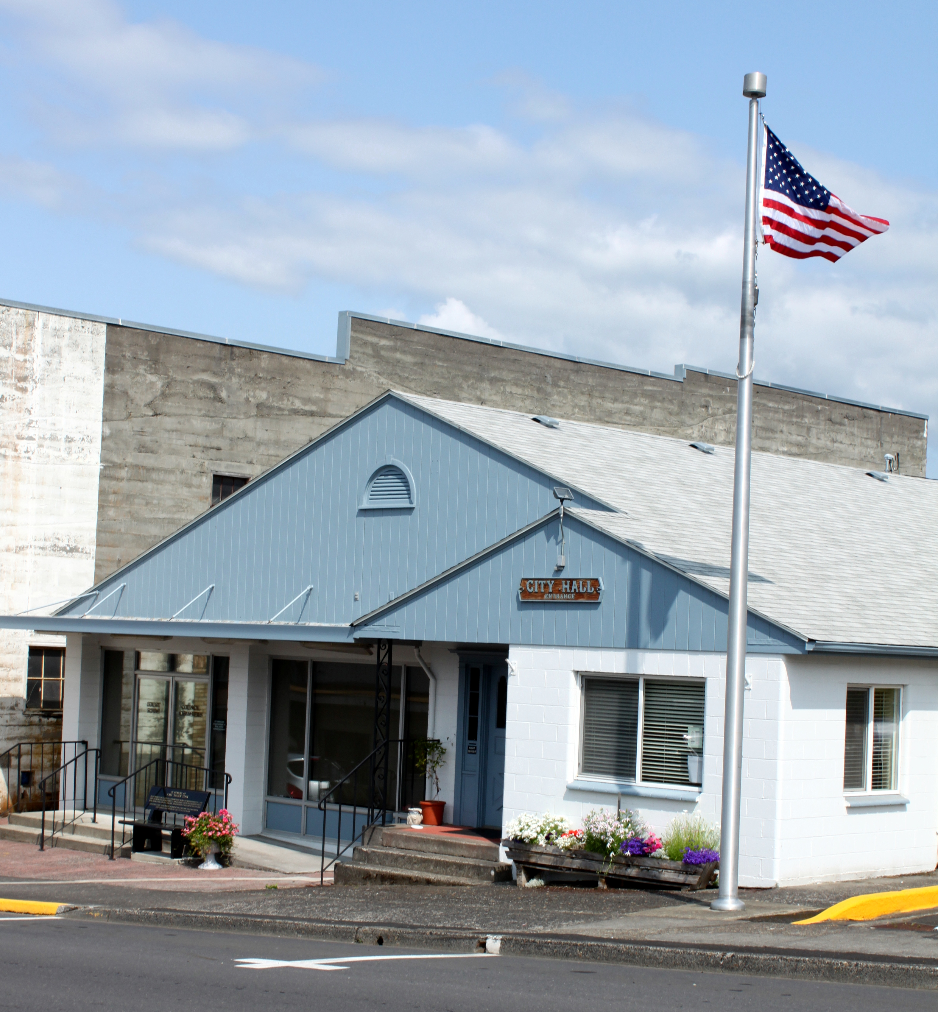 City hall in Clatskanie, Oregon.